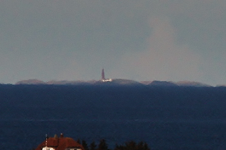 Utvær seen from Fedje in good visibility. Distance 32 km.